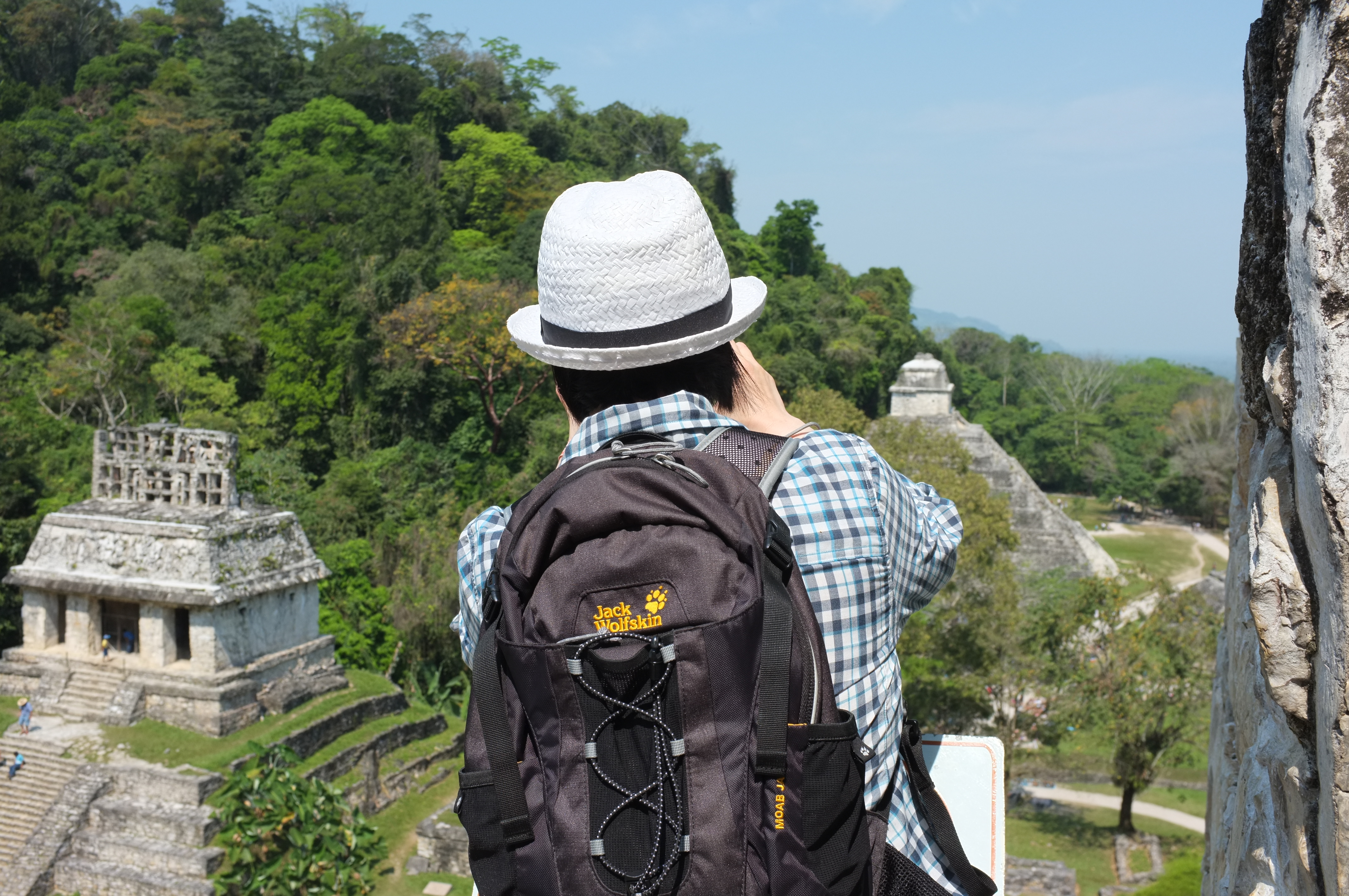 A Jack Wolfskin rucksack being worn by a tourist. Palenque, Mexico